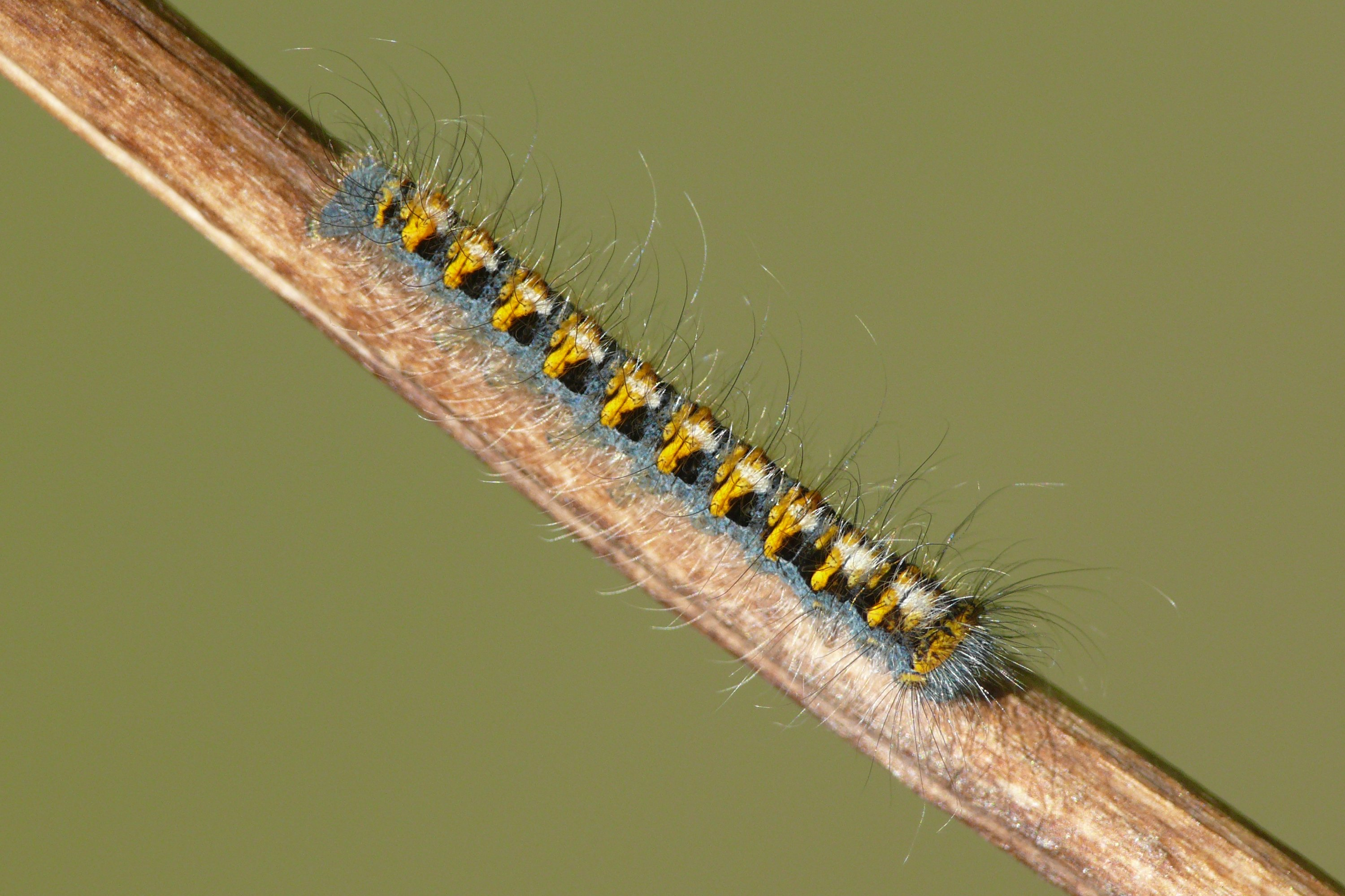 Caterpillar (L1) of Oak Eggar (Lasiocampa quercus), Krumltal, Pinzgau, Salzburg (state), Austria, ca 1800 msm